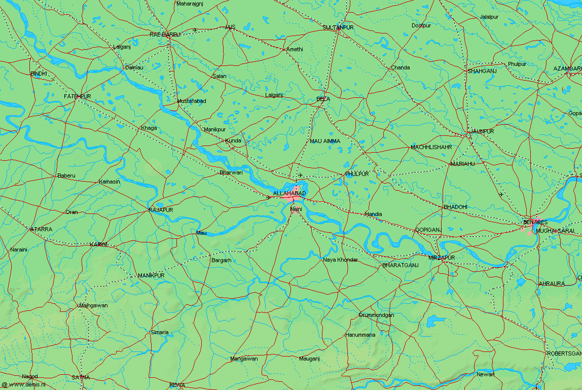 Surroundings of Allahabad, India. Originated from Public Domain.